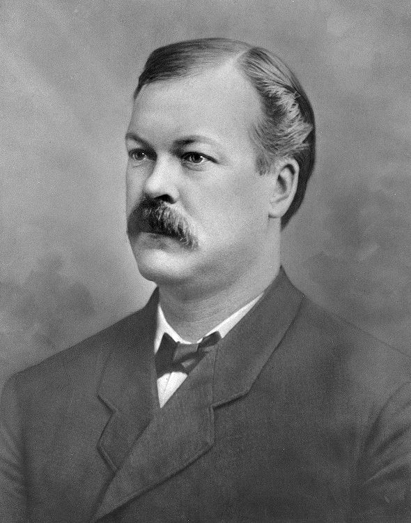 Portrait of former Mayor of Pittsburgh Robert W. Lyon